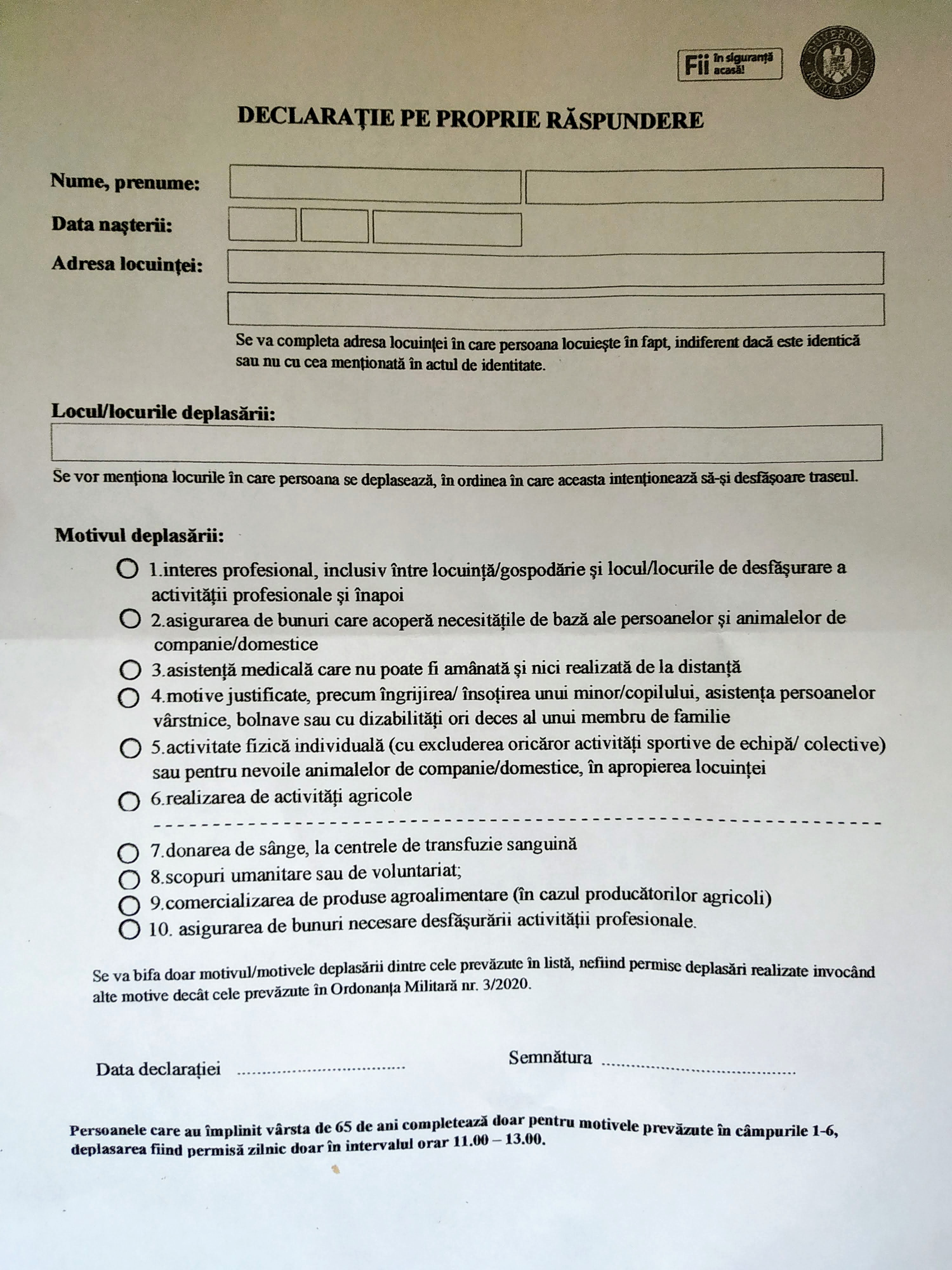 declarationRomână: declarație pe proprie răspundere